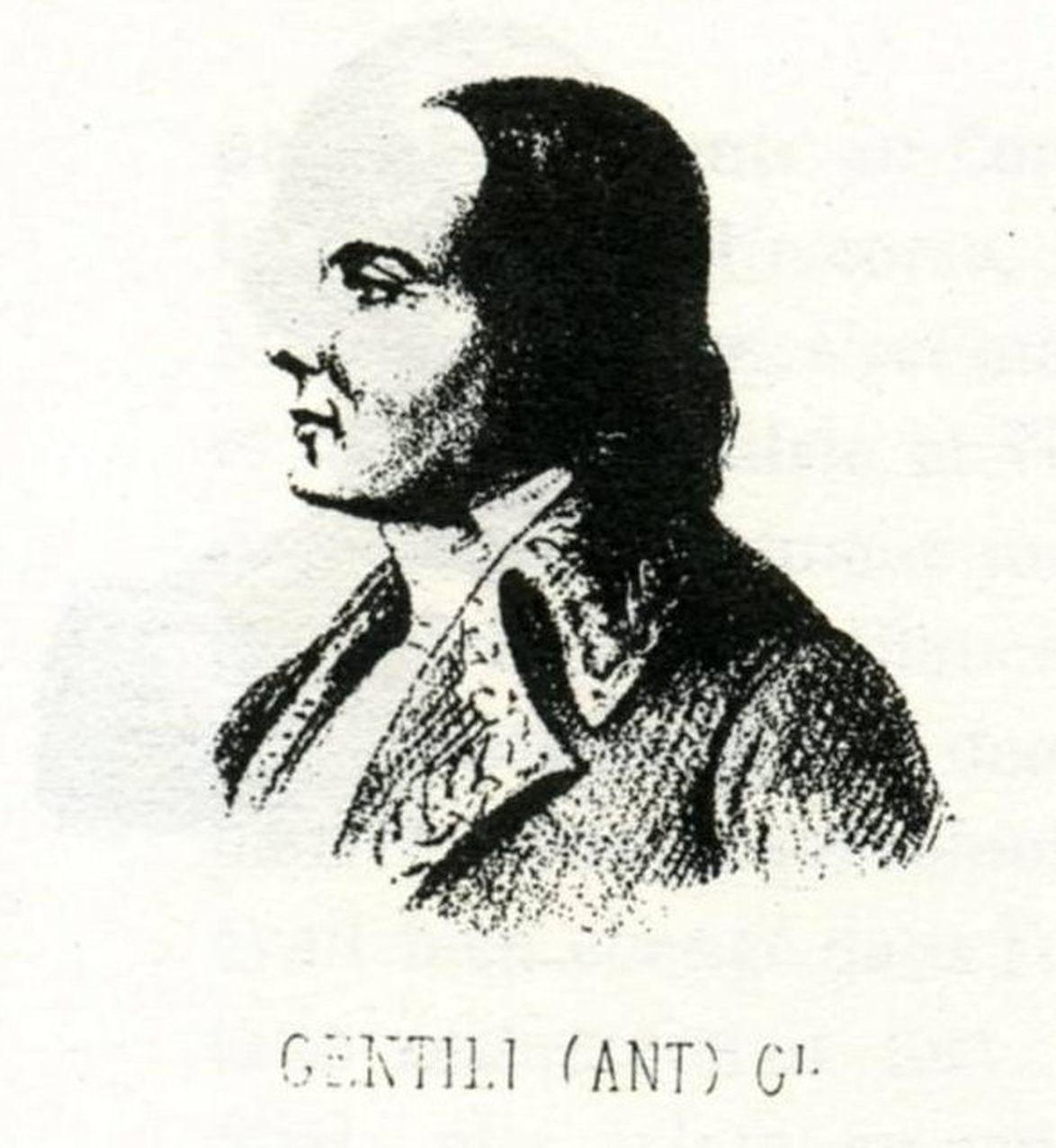 (1743 in Saint-Florent (Haute-Corse) - 1798) is a French general of the Revolutionary Wars, first French governor of Corfu and the Ionian Islands